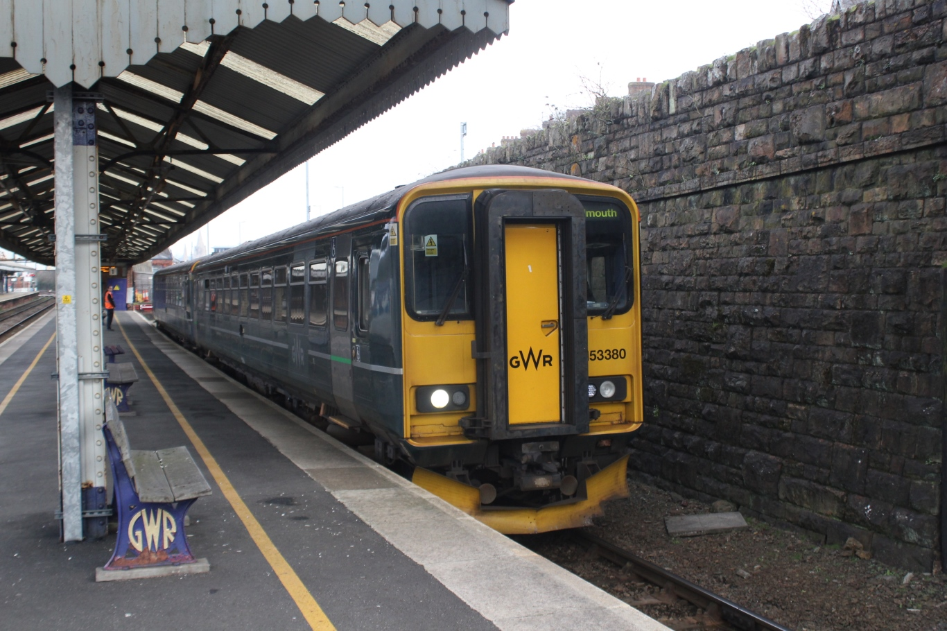 Two Great Western Railway-liveried class 153s, 153380 and 153373, pull away from Truro with a service to Falmouth.